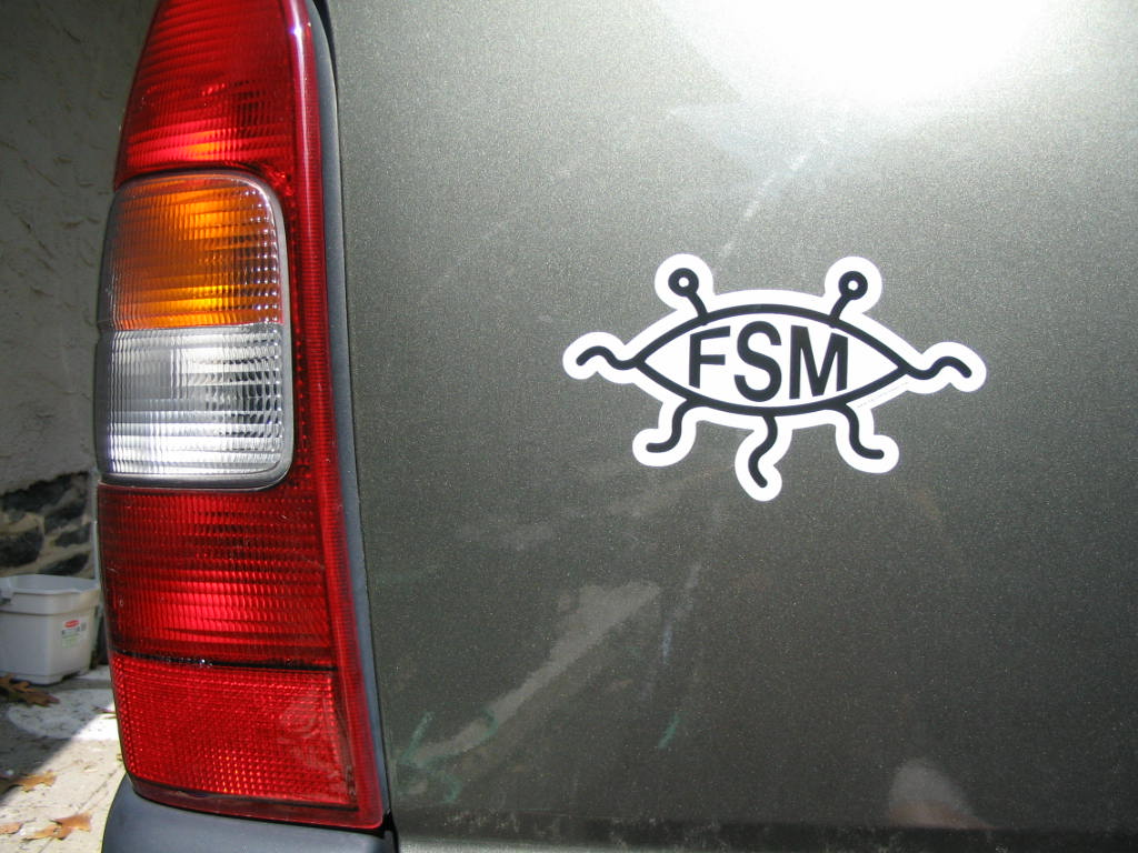 The noodly appendage!